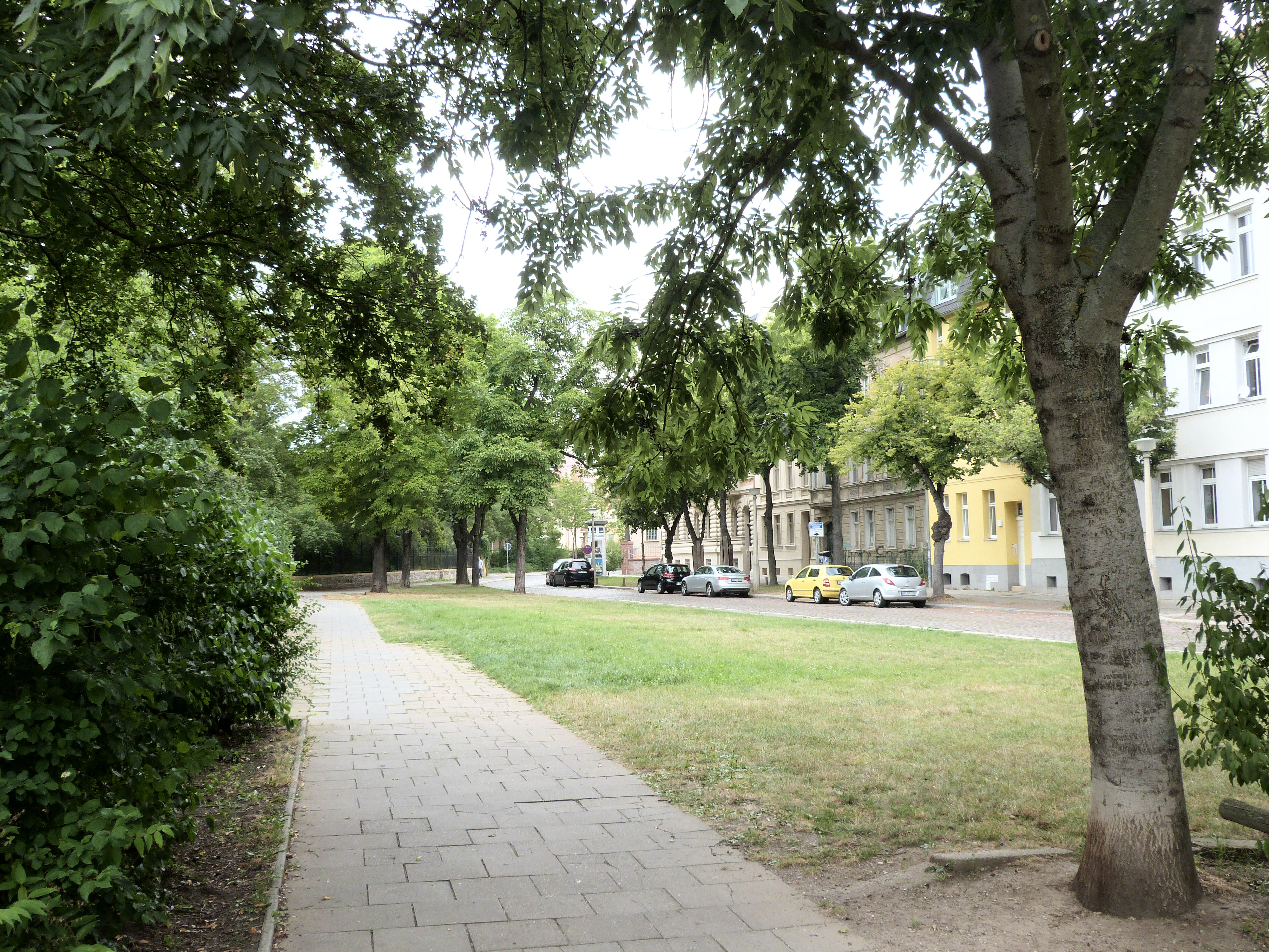 Street Am Kirchtor, Halle (Saale)